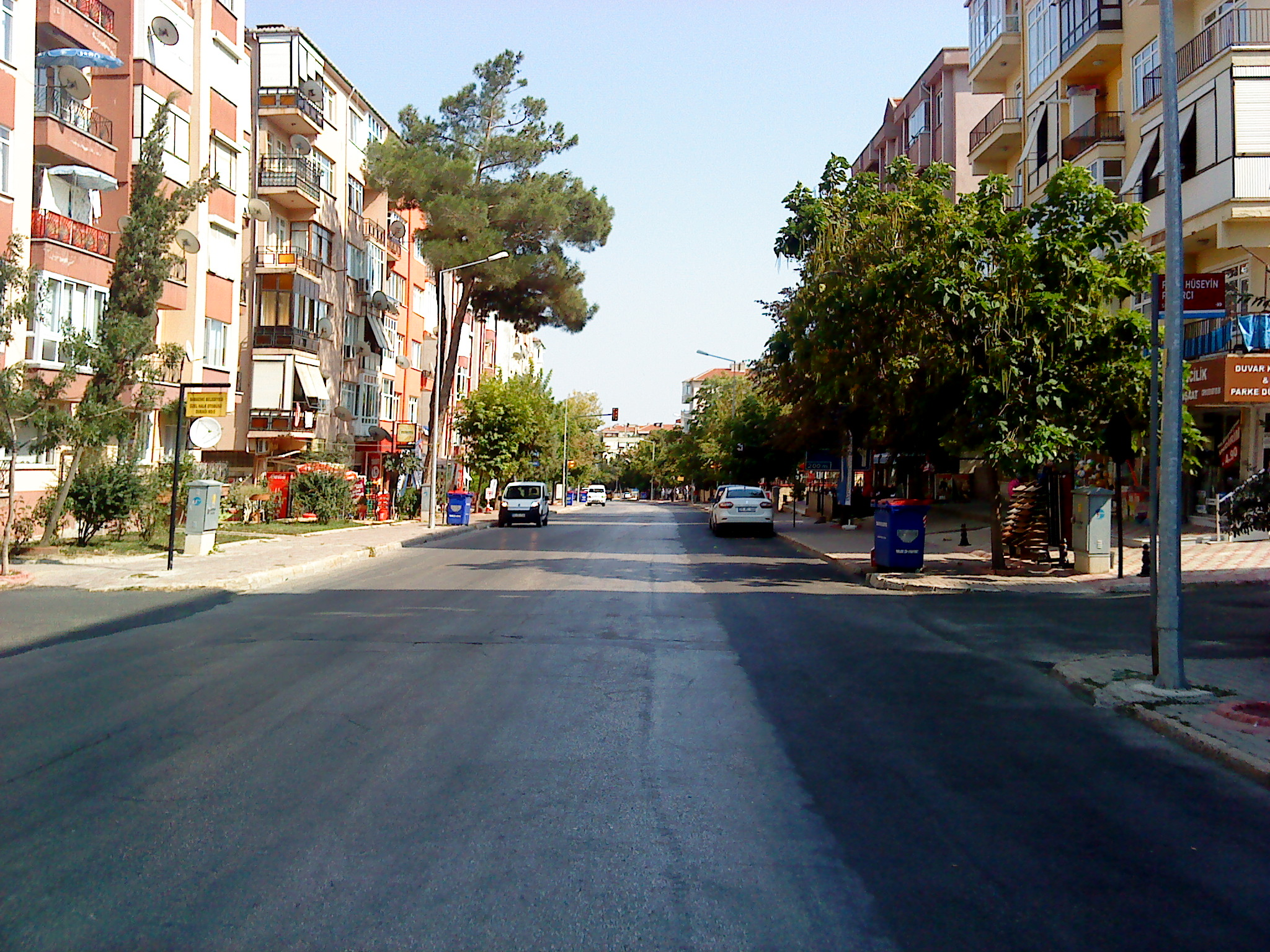 Street in the turkish city Babaeski